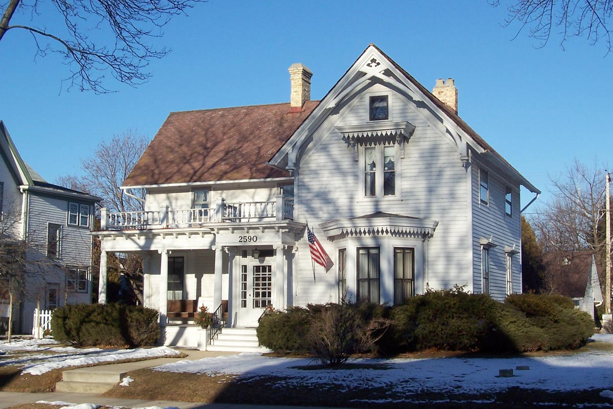 This former home of Warren and Beulah Brinton was an early gathering place for the village of Bay View. It is now occupied by the Bay View Historical Society in Milwaukee, Wisconsin.